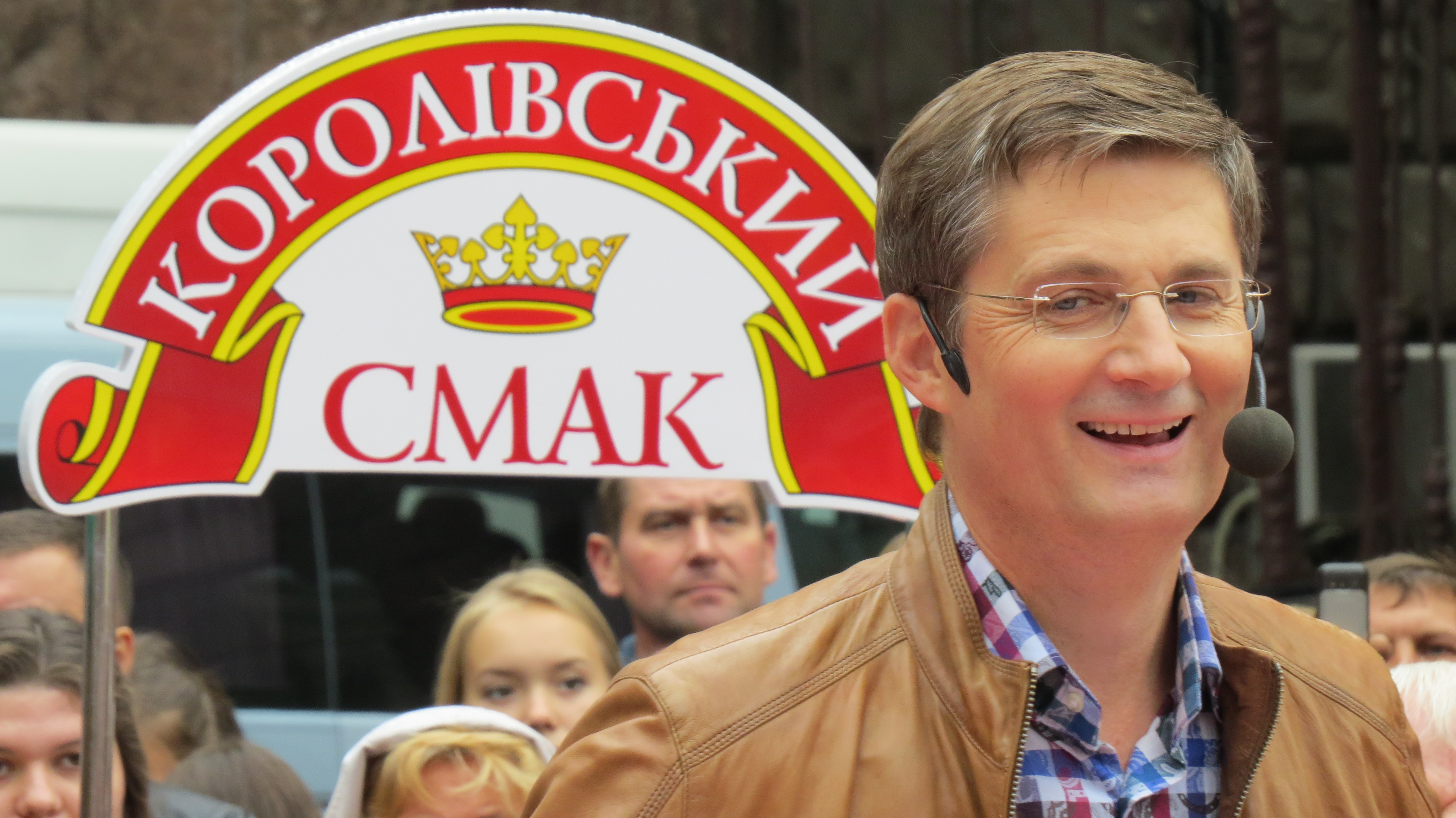 Igor Kondratyuk